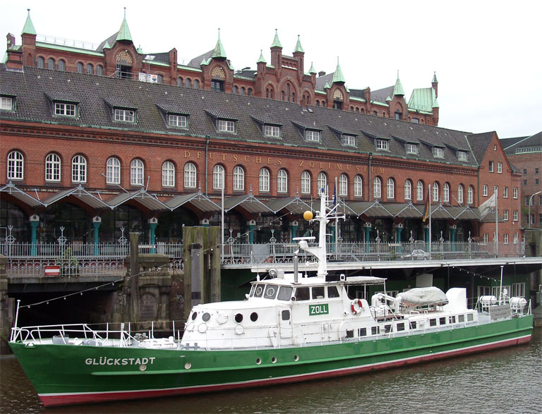 Customs ship Glückstadt at custom museum in Hamburg, Germany.